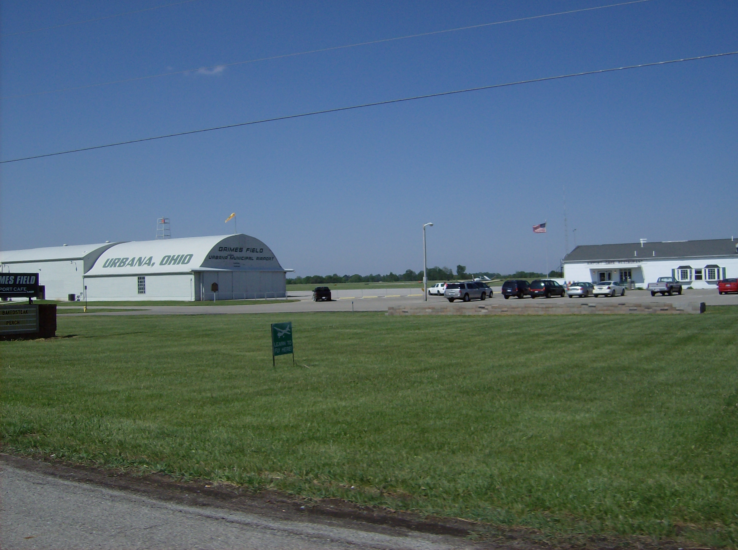 View of Grimes Field, an airport located on the north side of Urbana, Ohio, United States. Picture taken from U.S. Route 68.